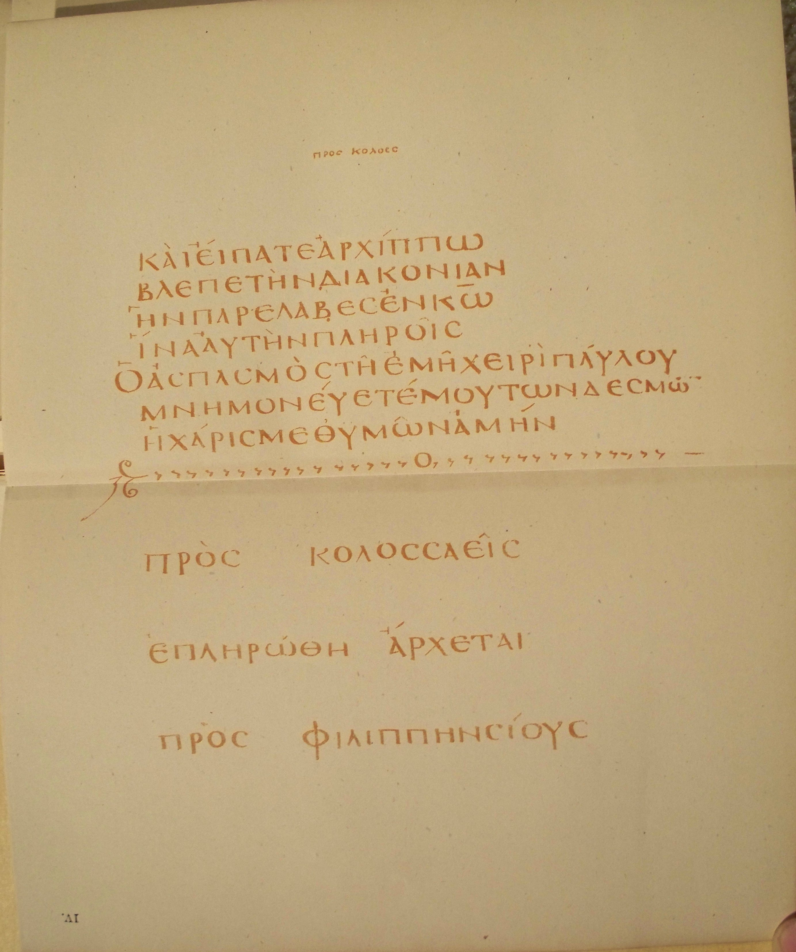 Single page of the Codex Claromontanus containing the greek text of Colosians 4:17-18 (end)